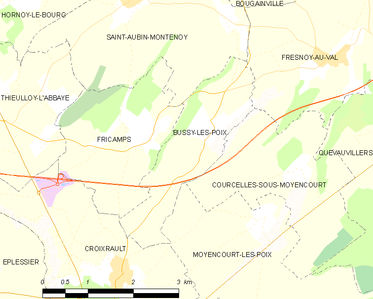 Map of French municipality Bussy-lès-Poix